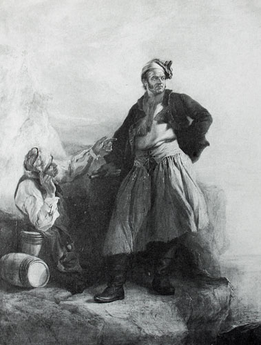 Oil on canvas, 108cm x 86cm. Signed and dated 1833